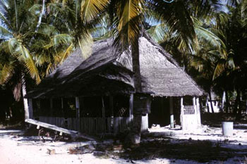 Historic post office on Orona (formerly Hull) Island, Phoenix Islands, Kiribati. Original field notes: In 1947, Orona had 530 people, Nikumaroro 79, Manra 294, and Canton 81.